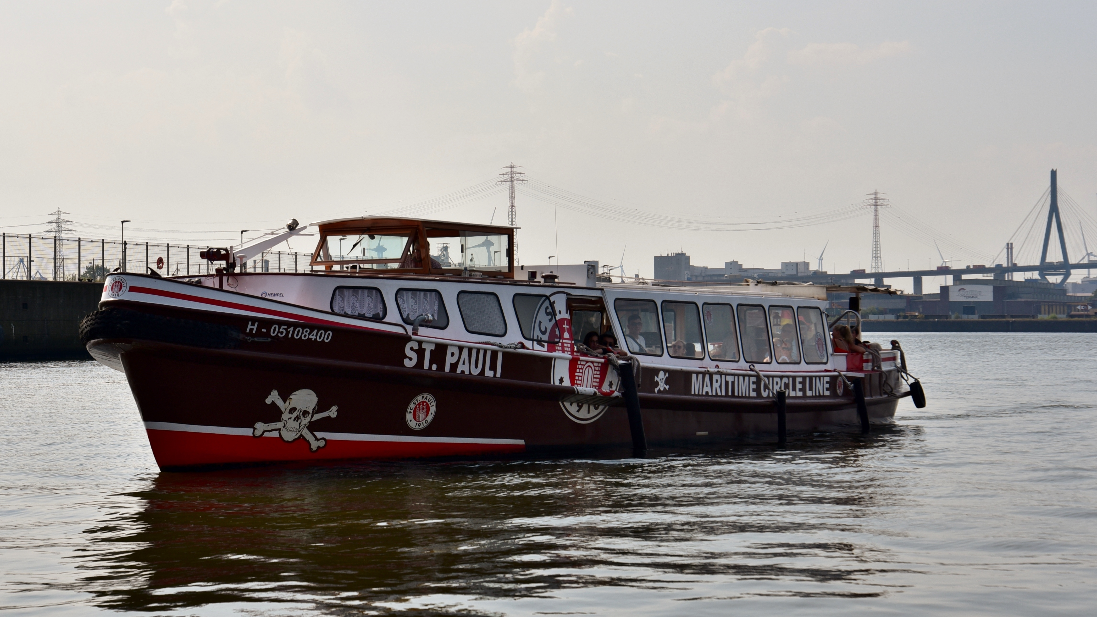 Tour boat St. Pauli operating a harbour tour in the port of Hamburg